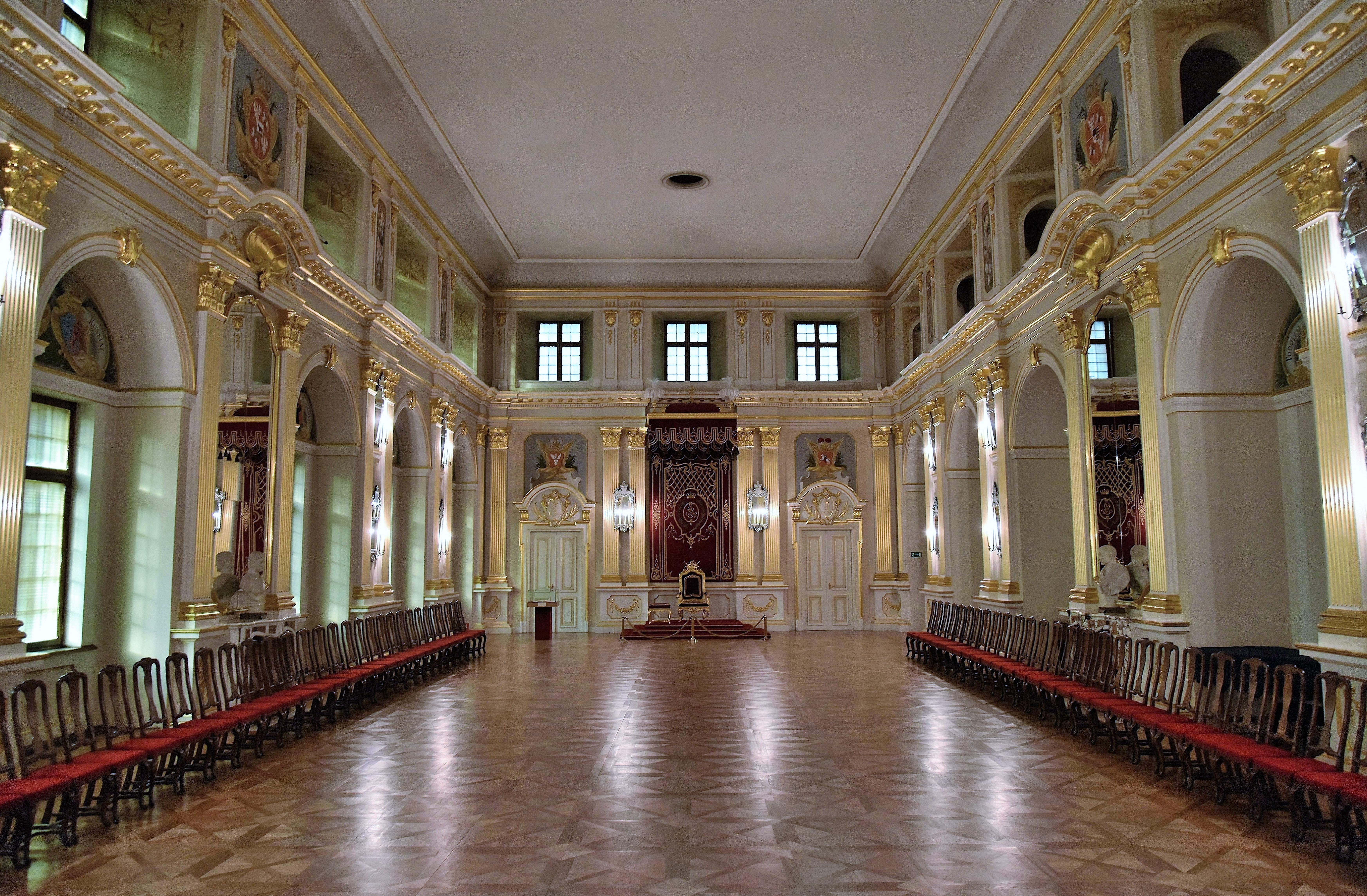 Senator Chamber in the Royal Castle in Warsaw